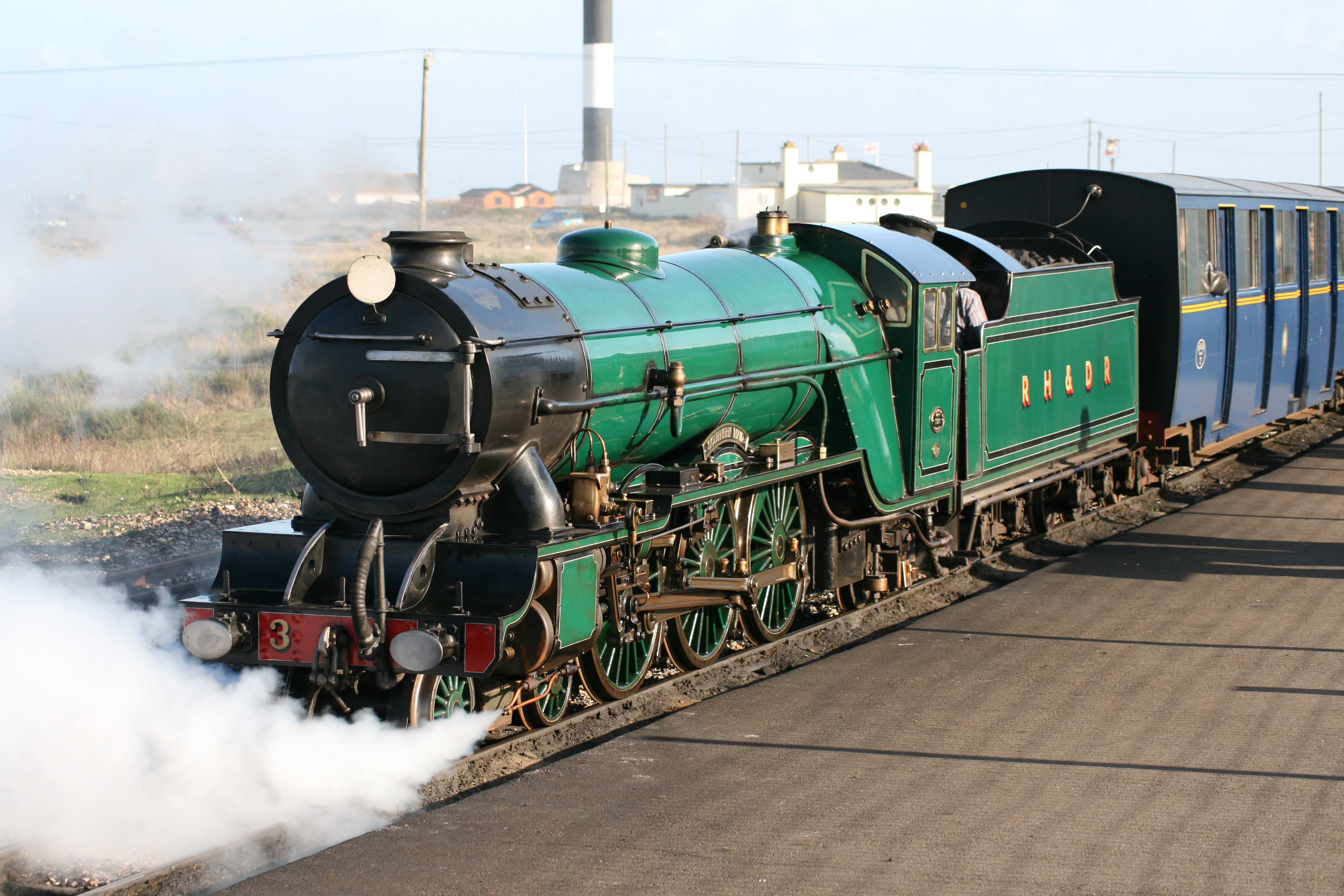 The Romney Hythe & Dymchurch Railway locomotive Southern Maid getting underway from Dungeness Station